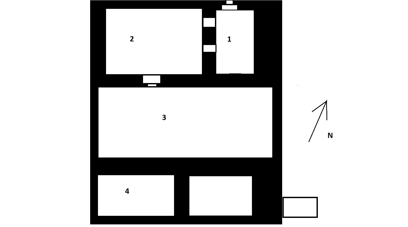 Rough schematic plan of the Temple of OBobda based on Yadin Negev's drawing